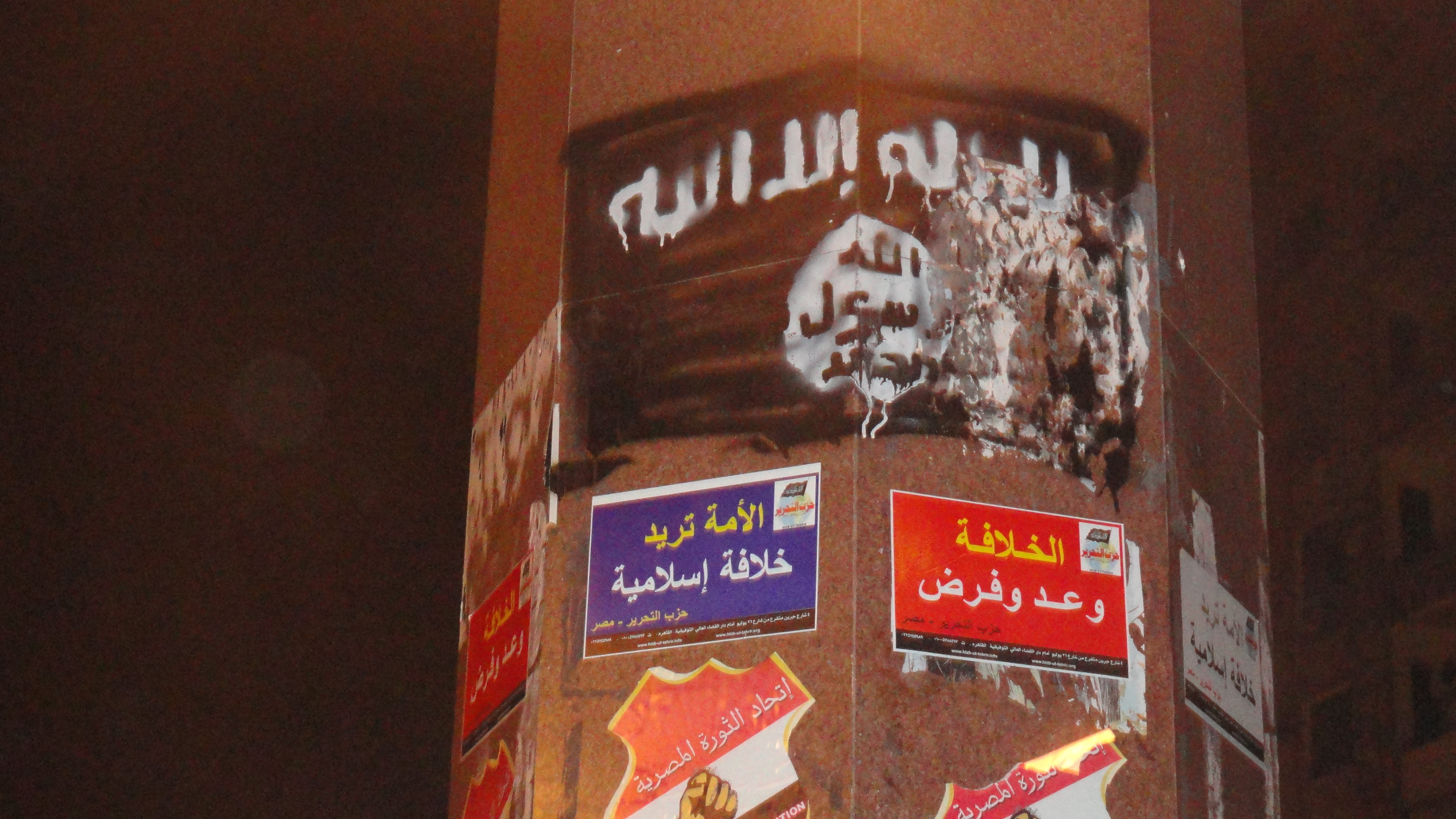 A banner near Tahrir square for Hizb ut-Tahrir calling for the return of Islamic Khalifah.